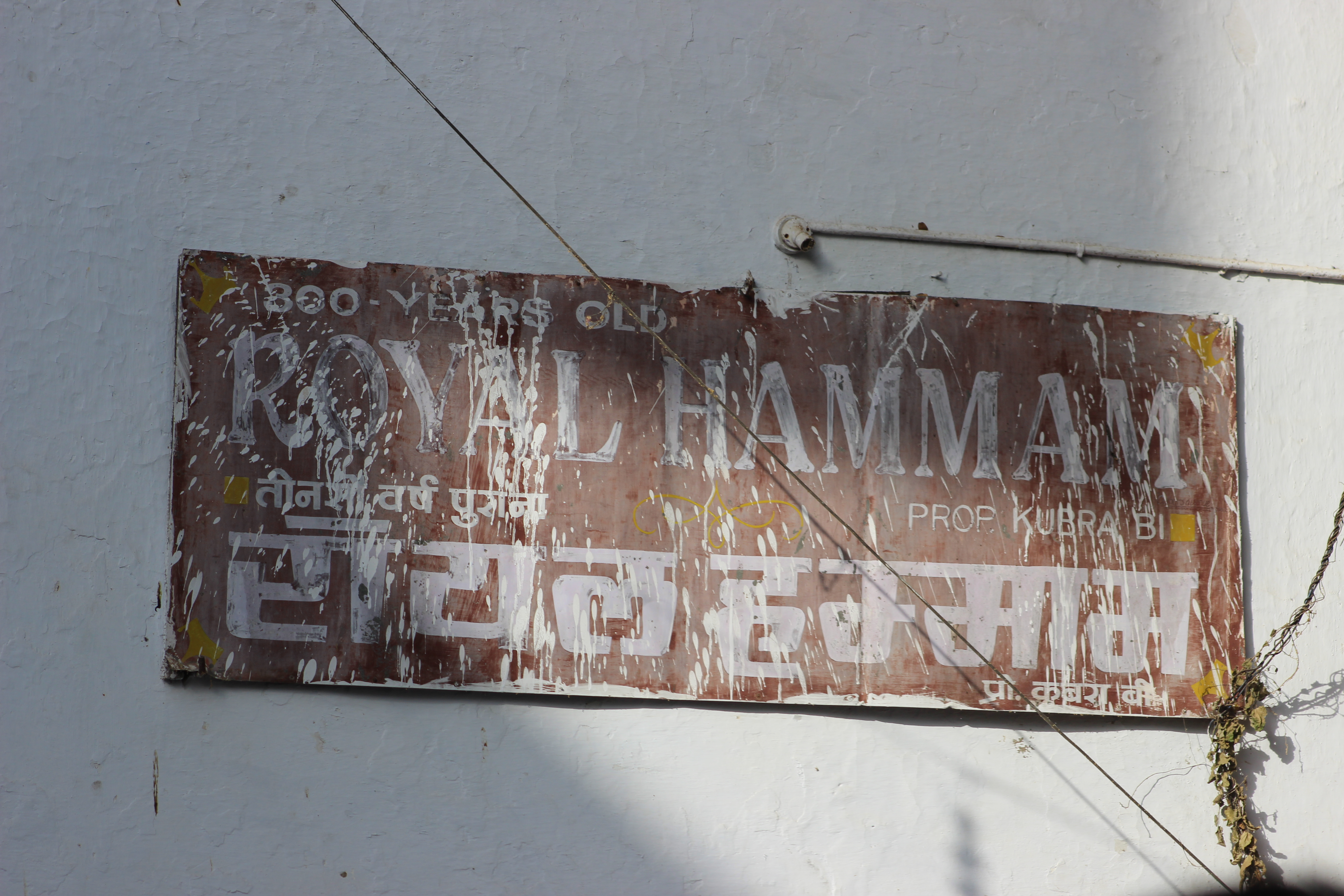 Roof painting at Sadar Manjil Bhopal